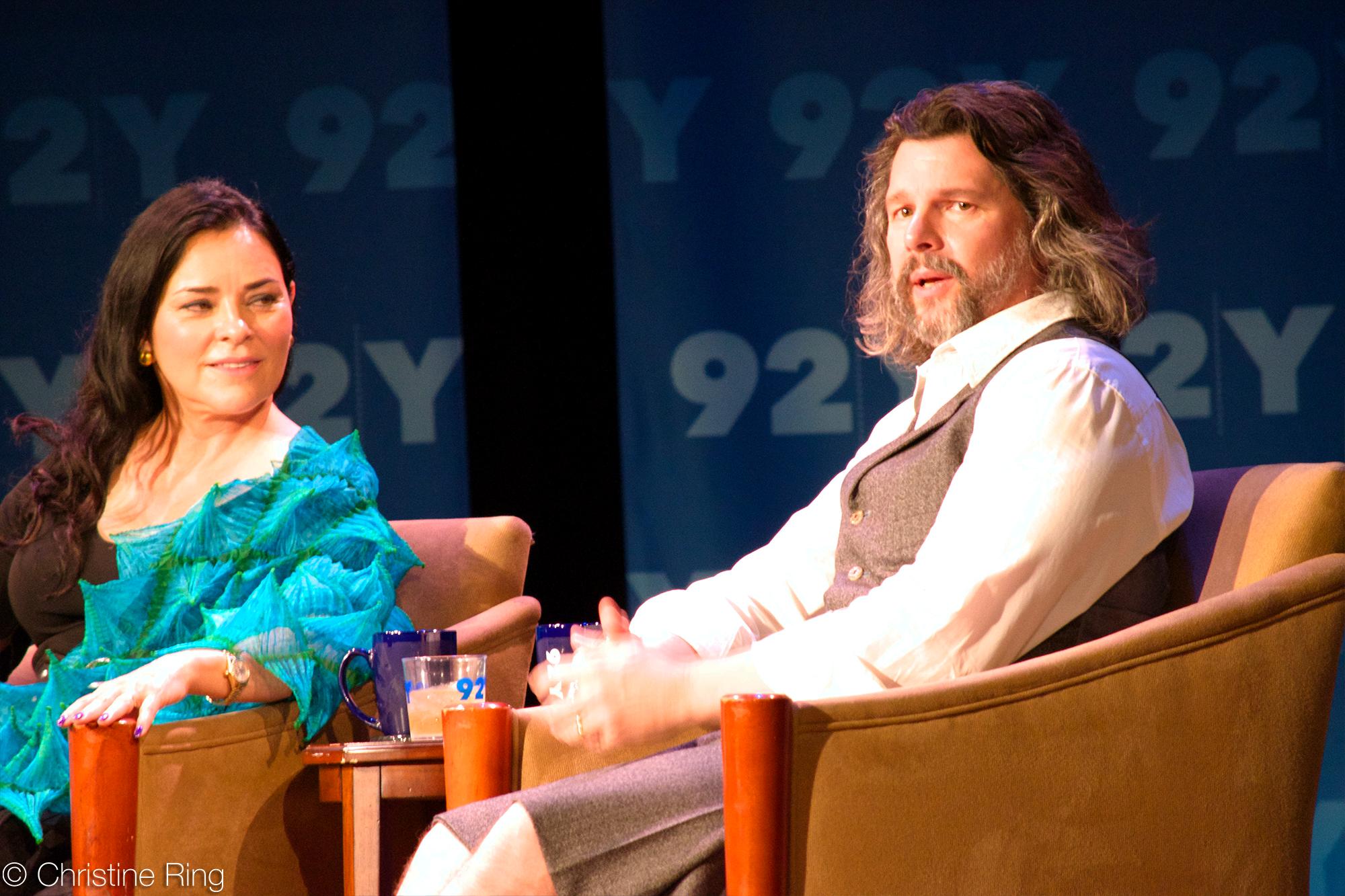 Author Diana Gabaldon and showrunner Ronald D. Moore at 92nd Street Y for the New York premiere of the first season of the TV series Outlander, which is based on Gabaldon's novel of the same title.